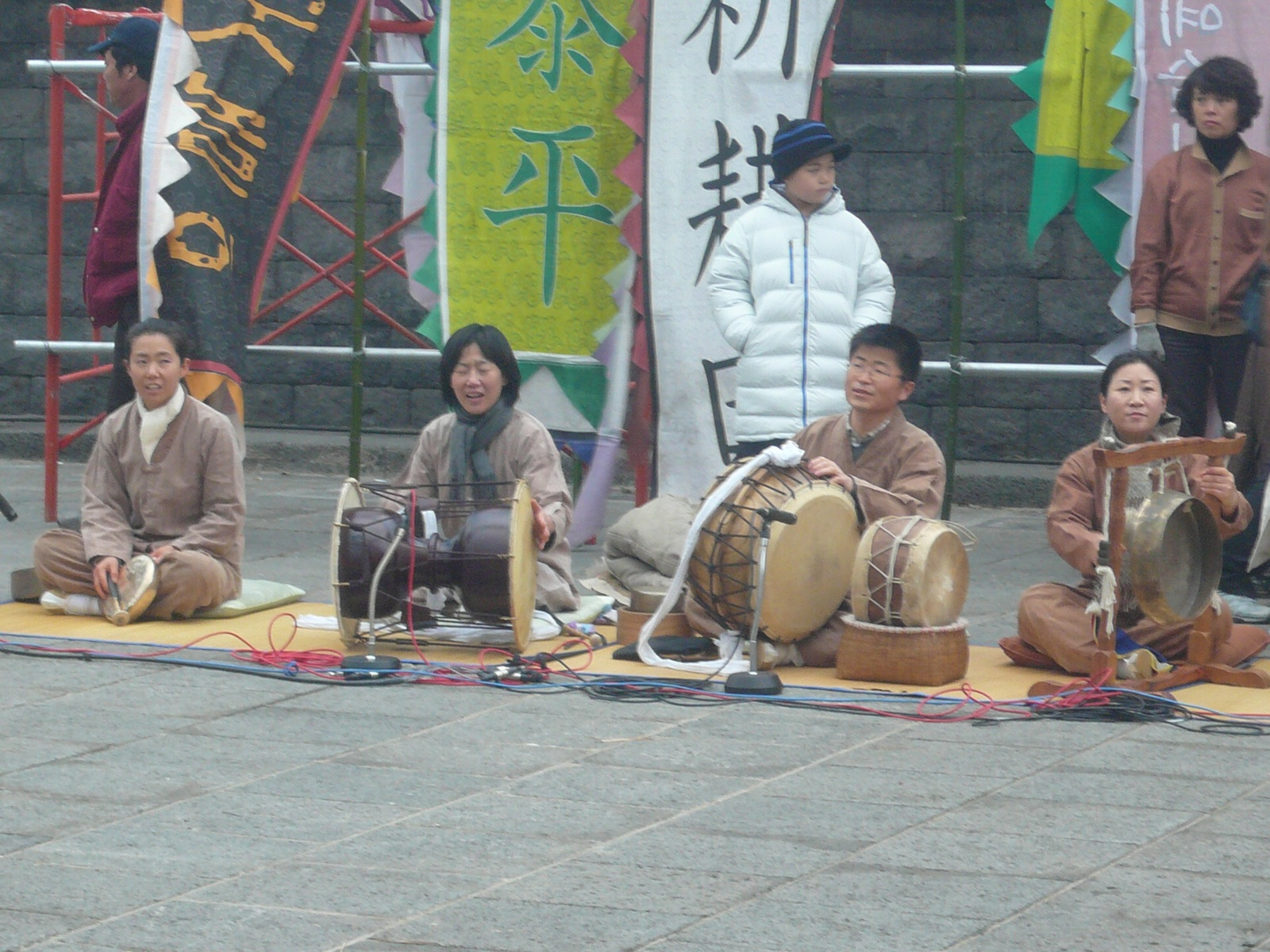 Nongak, farmer's music